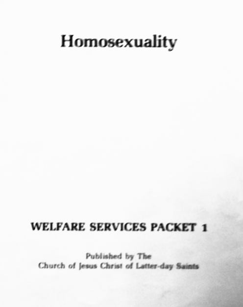 Cover of the 1973 LDS church packet on homosexuality by Allen Bergin and Victor L. Brown Jr.